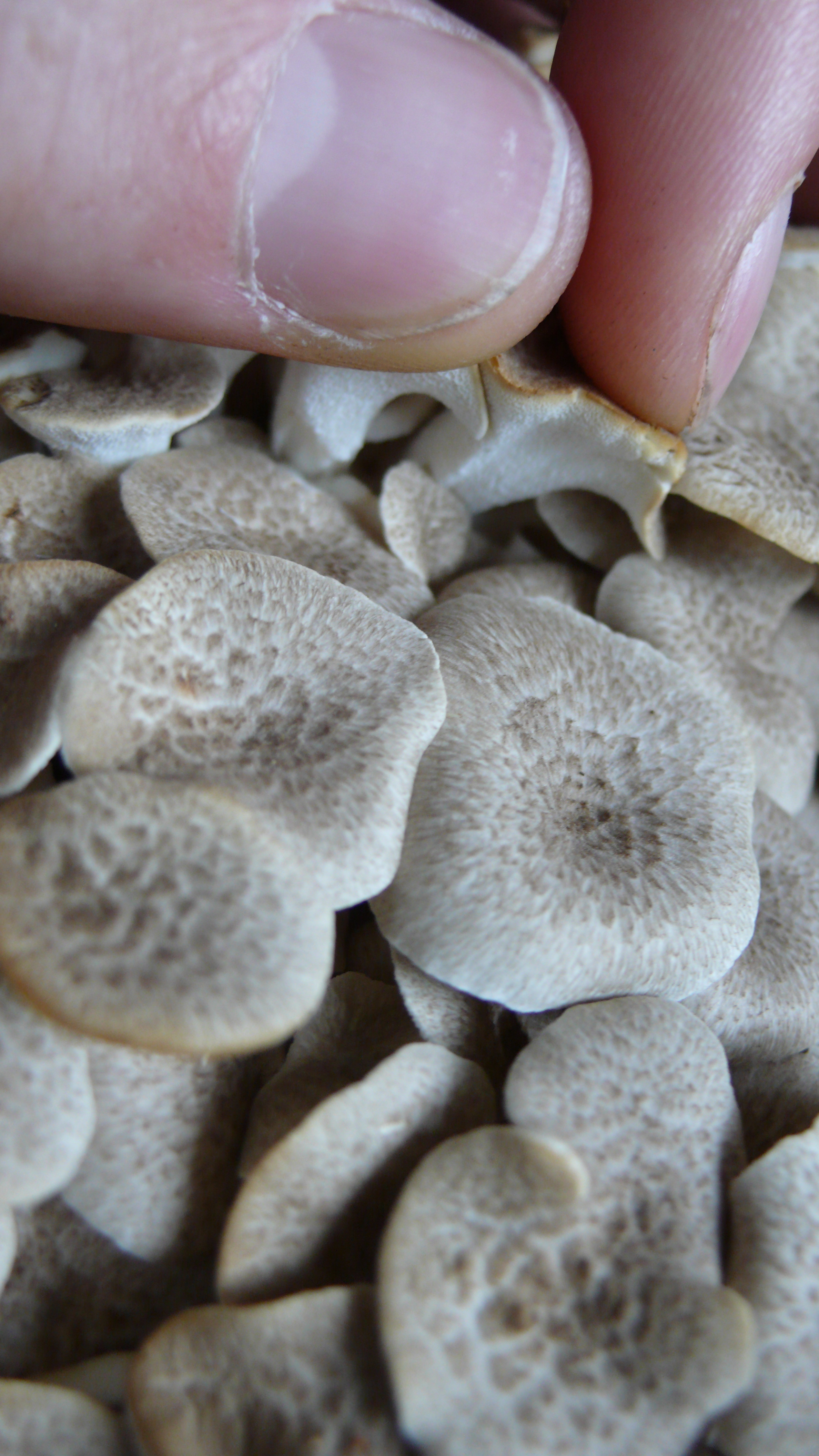 Close up Of U. Polypore caps